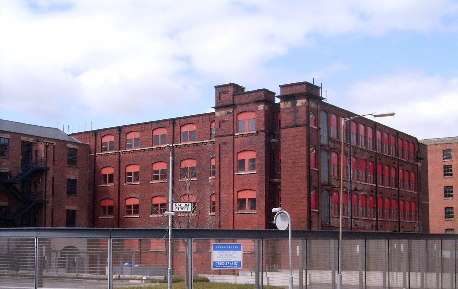 Little Mill, part of the Murrays' Mills complex